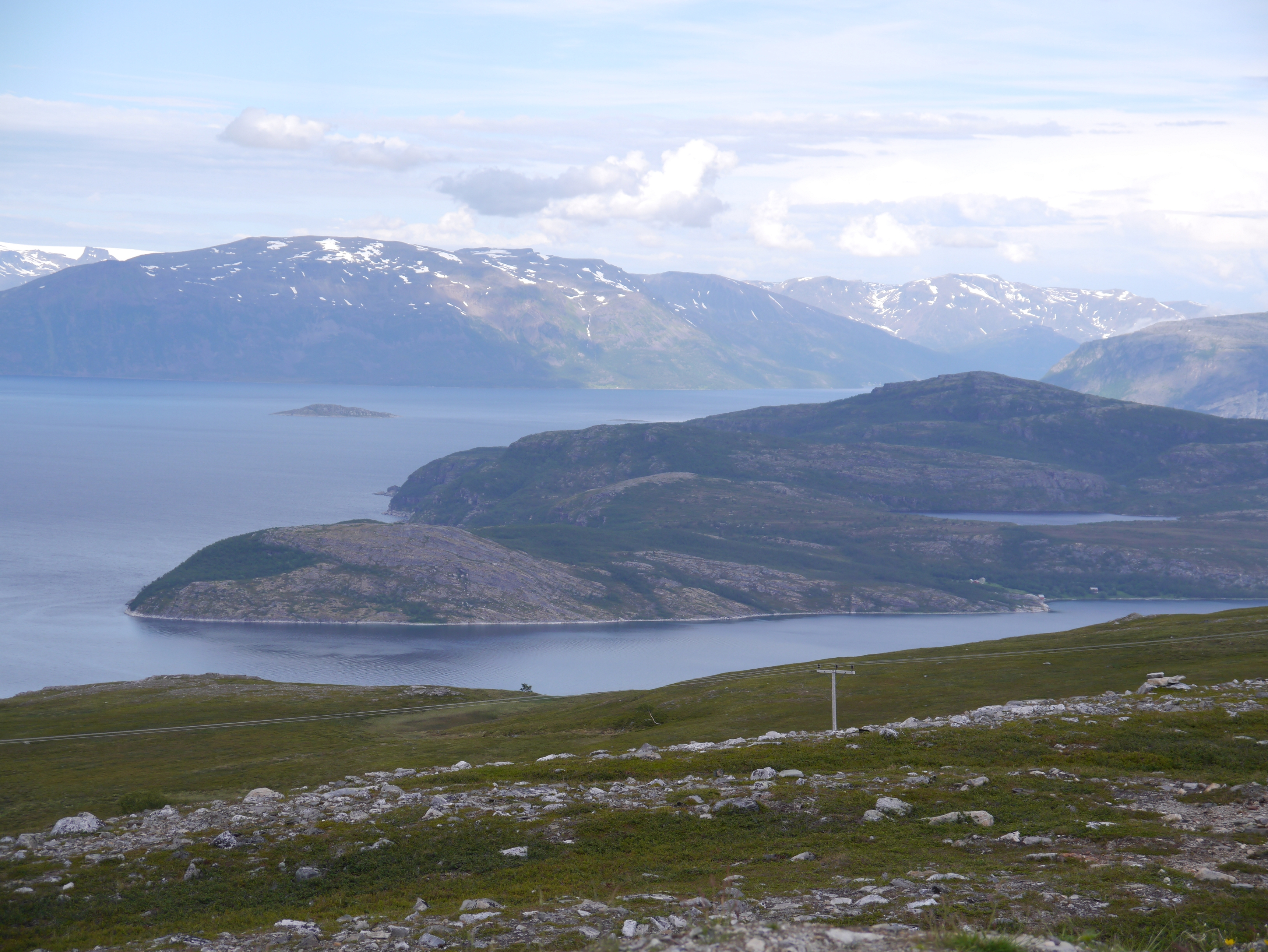 Landscape between Tromsö and Maygeröya, Troms Province, Northern Norway